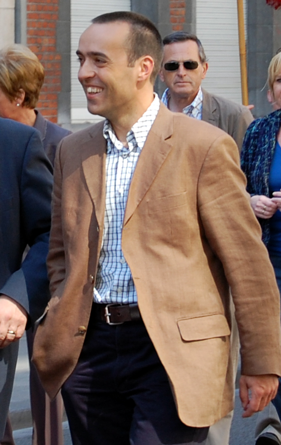 Belgian politician Bruno Tobback.